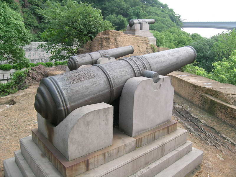 浙江宁波镇海招宝山炮台上的火炮。The cannons on the Zhao Bao Shan in Zhenhai, Ningbo, Zhejiang, China.